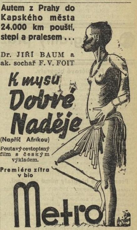 Advertisement, movie "K mysu dobré naděje", 1933